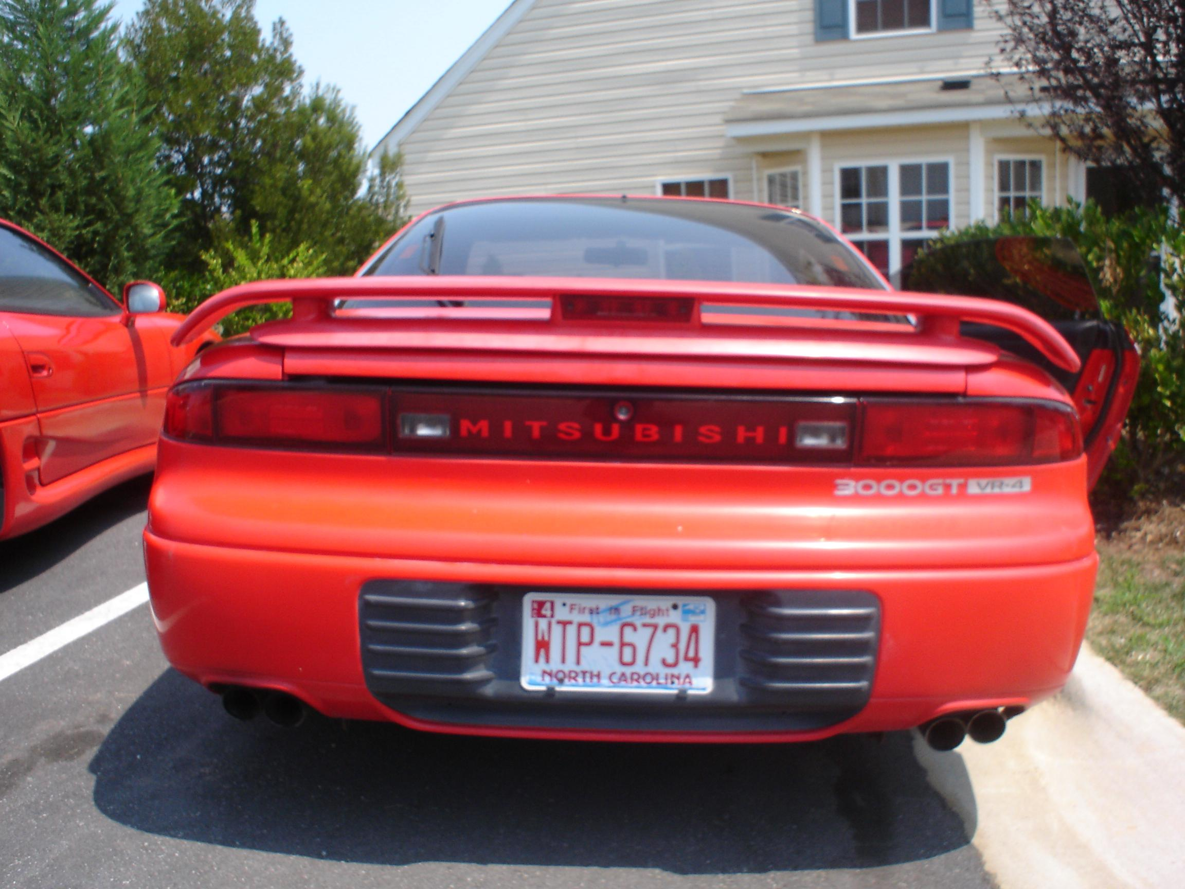 I took this photo of my own car and am relinquishing all rights to it.